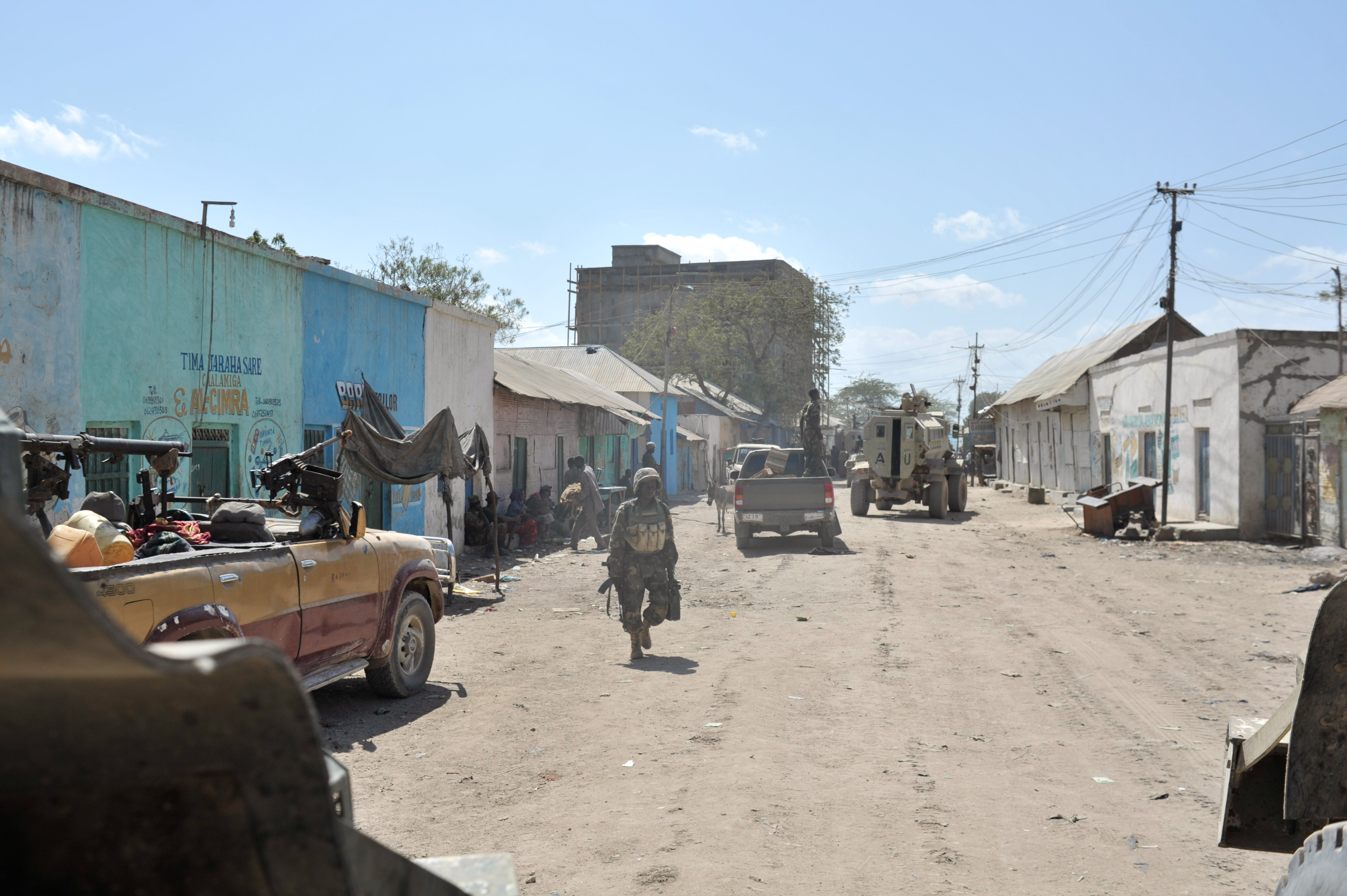 African Union troops walk through the streets of Qoryooley, Somalia, after a succesfull joint operation by AMISOM and the SNA captured the town from al Shabab mlitants on March 22. AU UN IST PHOTO / Tobin Jones